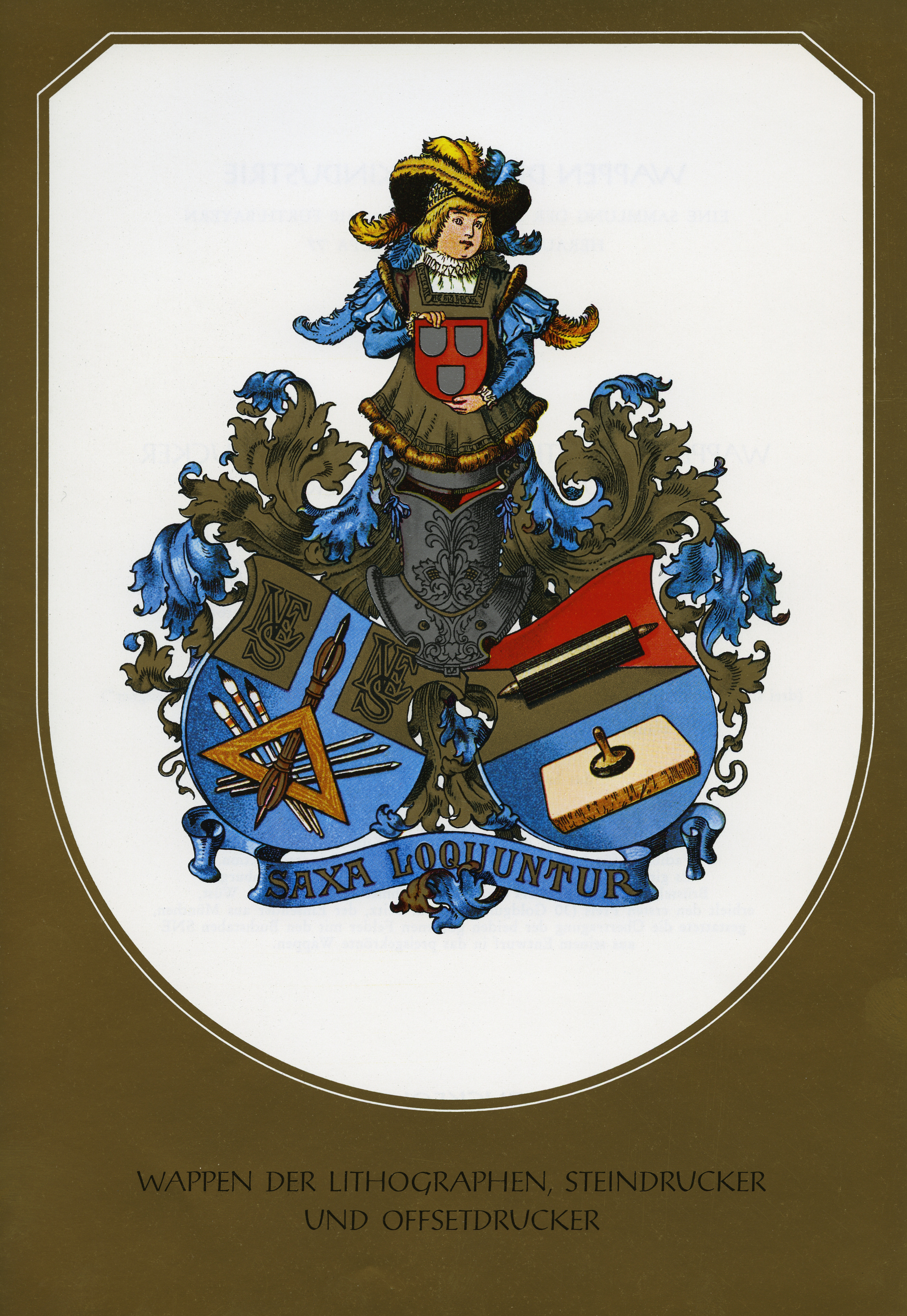 Coat of arms Lithographer an Offsetprinter